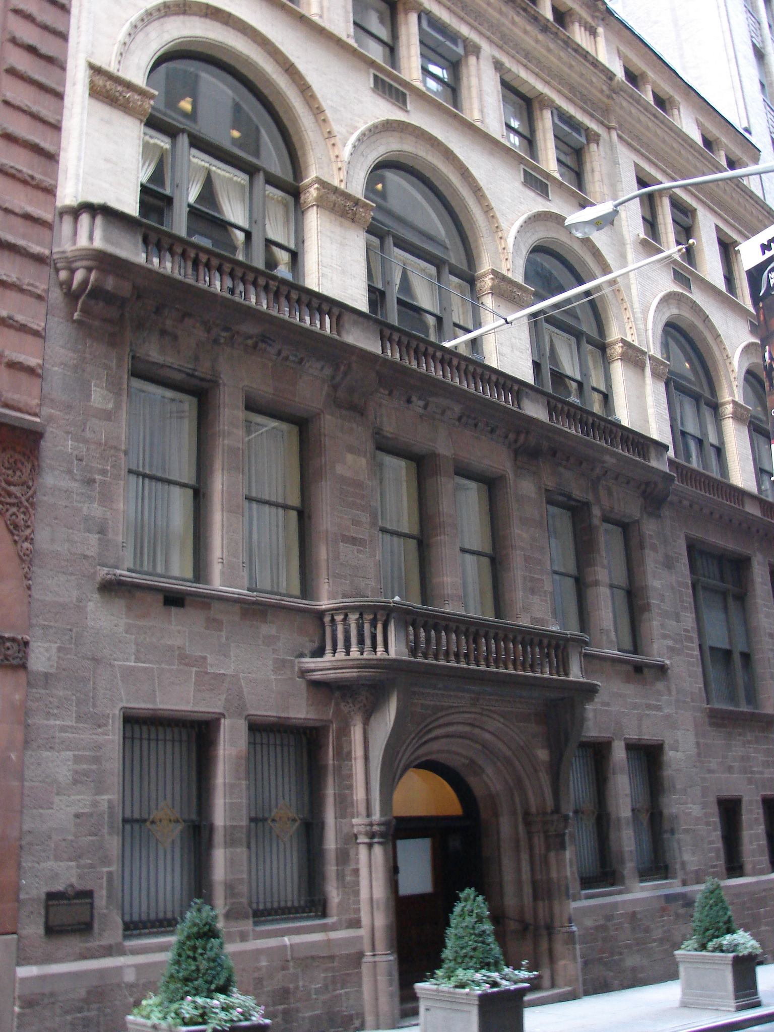 This photo is of Wikis Take Manhattan goal code H12, Down Town Association.